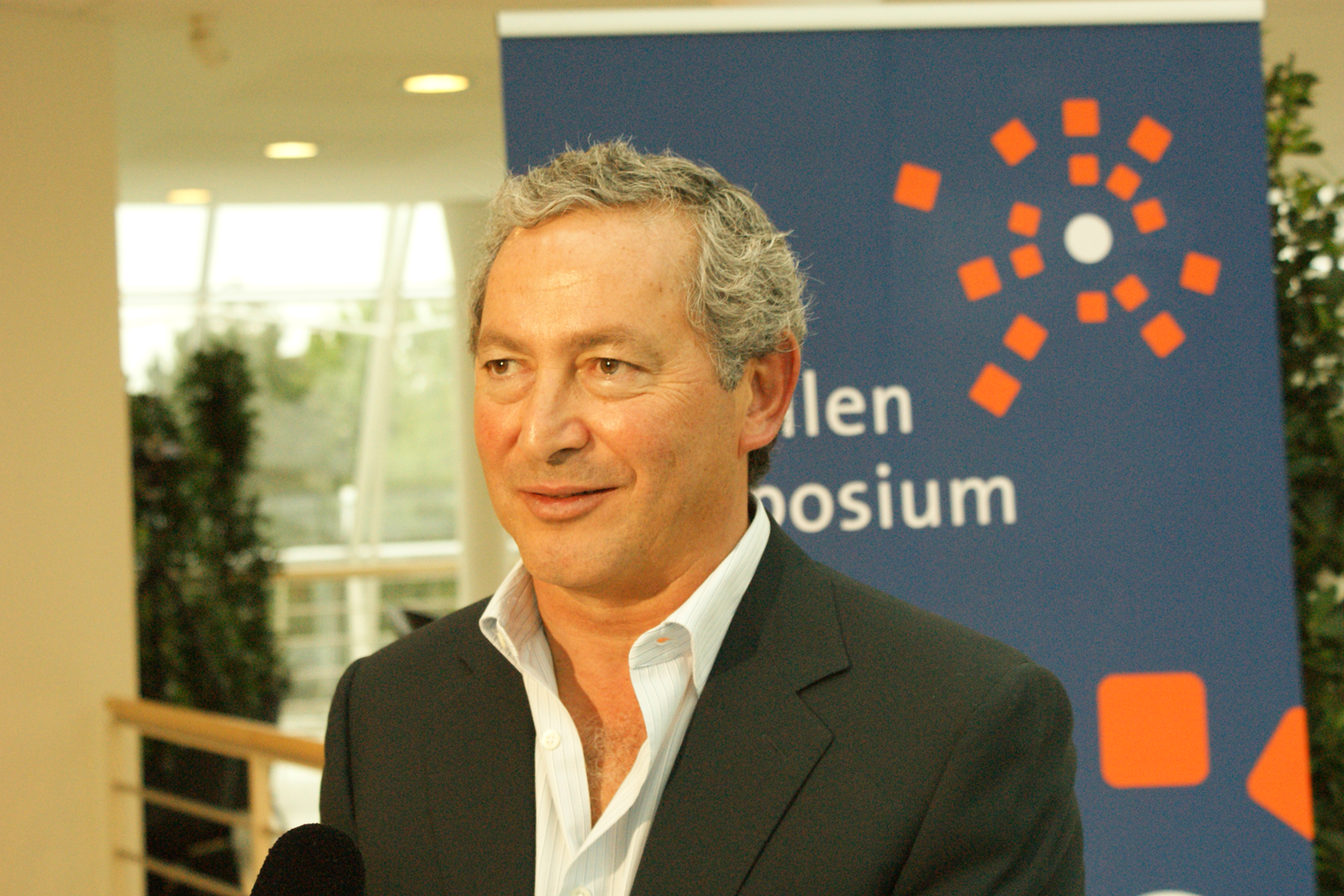 Samih Sawiris in May 2010 at the 40. St. Gallen Symposium an der Universität St. Gallen